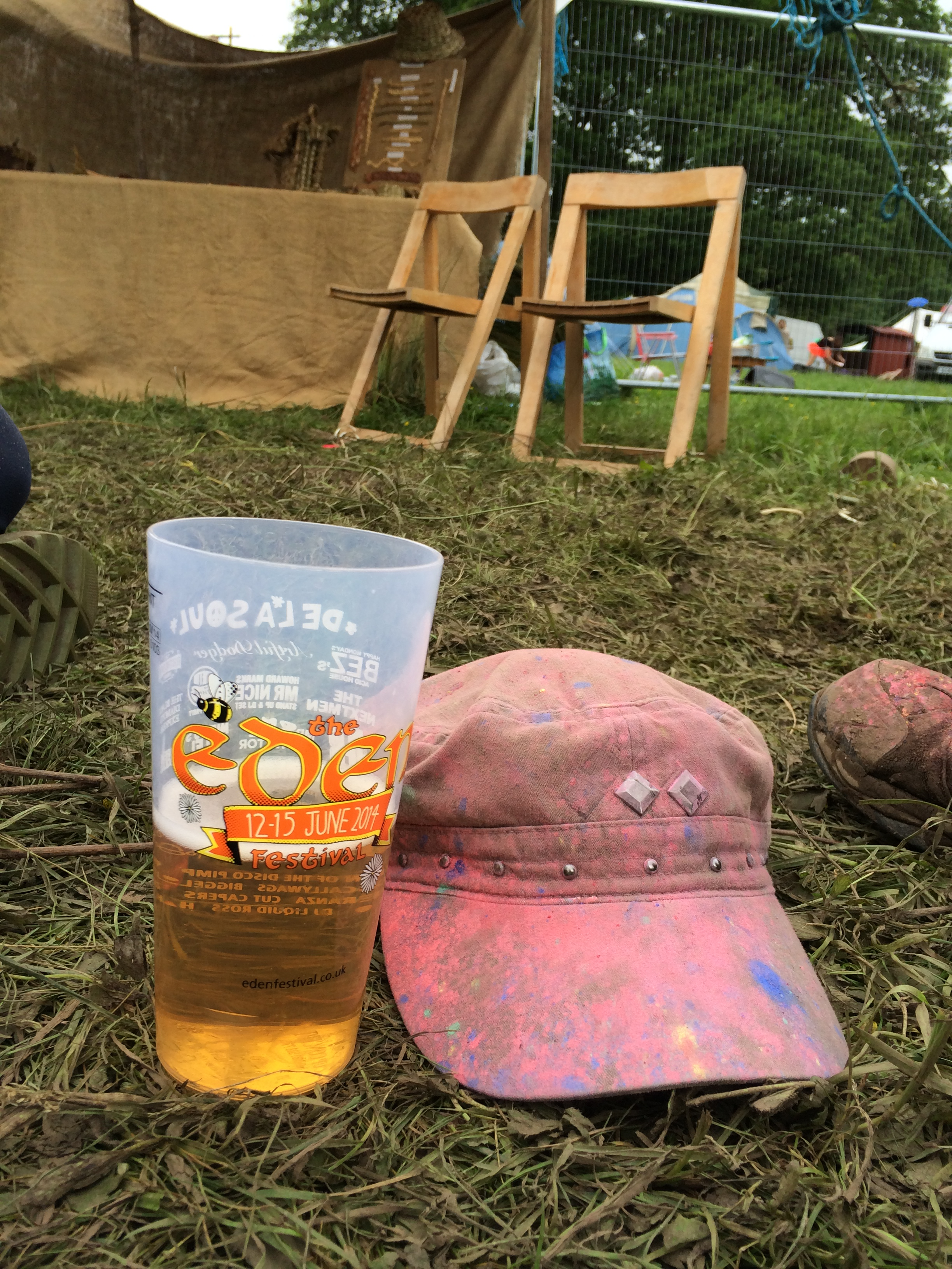 Hat after a paint fight at Eden Festival in 2014 and a pint of cider in a reusable pint glass.